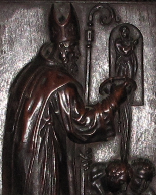 Caius (bishop of Milan) - wooden statue in the Choir (1567-1614) of the Cathedral of Milan